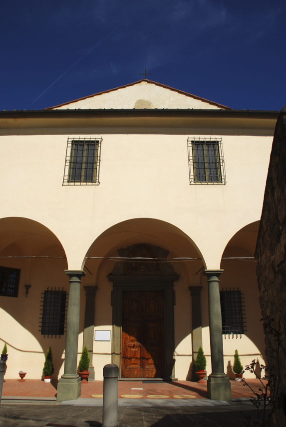 the Church of Santa Maria della Neve al Portico, Florence, Italy. Facade (central part).